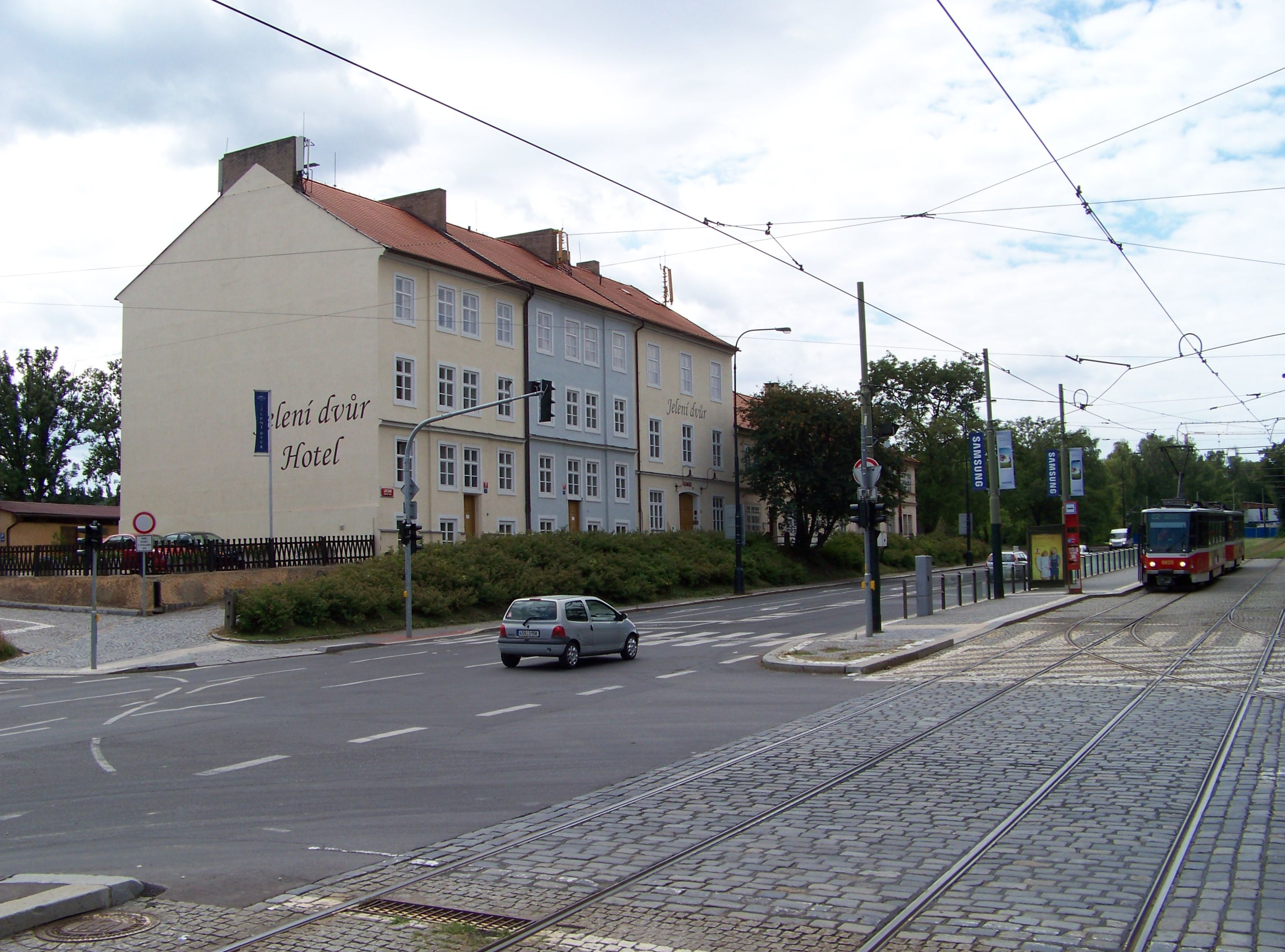 Prague-Hradčany, the Czech Republic. Jelení 3–13, Hotel Jelení Dvůr.